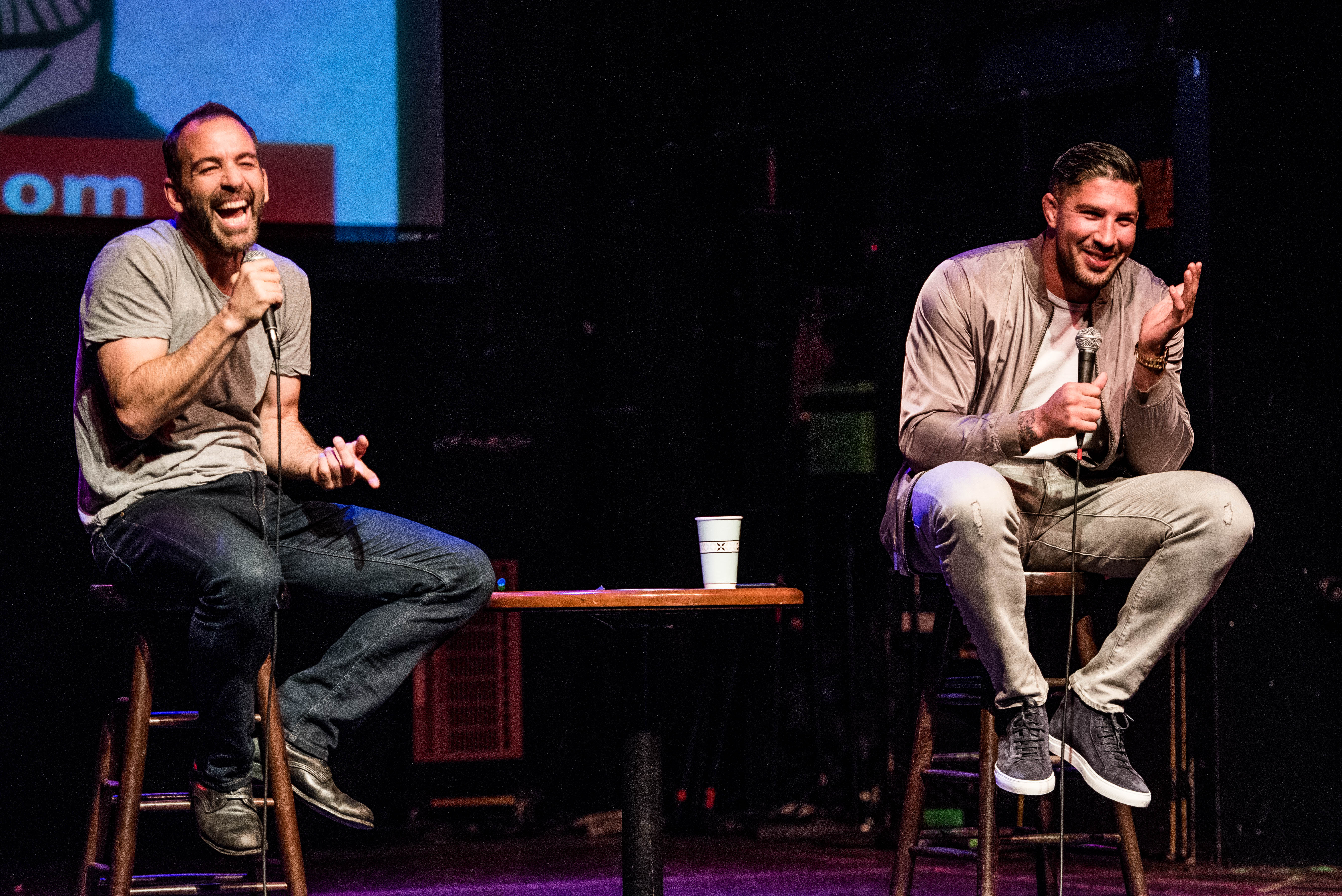 Brendan Schaub and Bryan Callen, aka hosts of "The Fighter and the Kid" Podcast on FOX Sports.